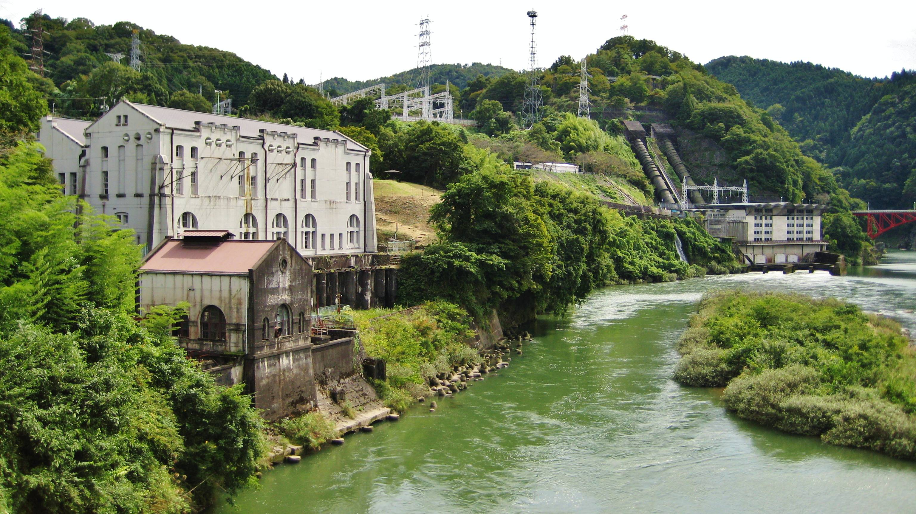 Maruyama Power Station (right) and Yaotsu Old Power Plant Museum (left).